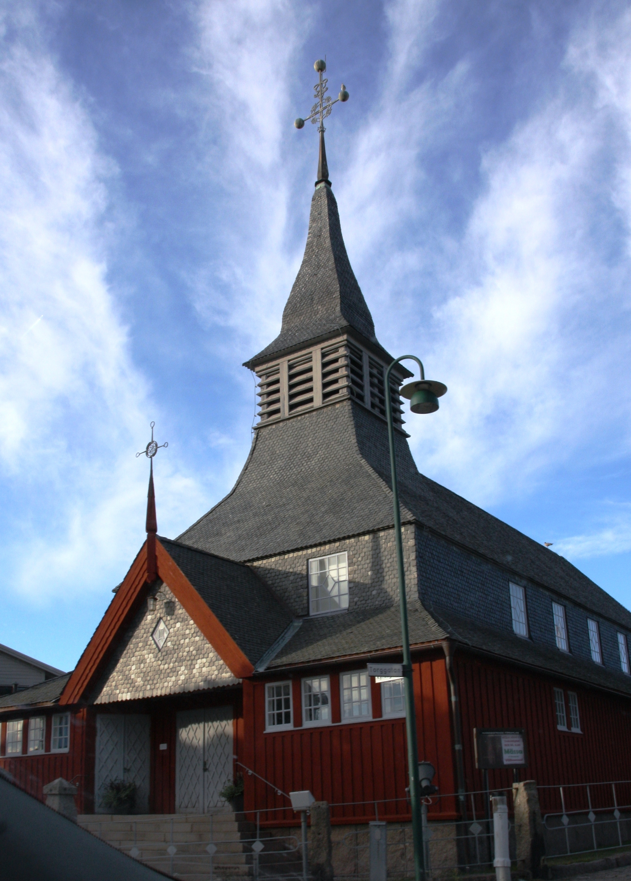 Hunnebostrand kyrka i Hunnebostrand, Sotenäs kommun. Bohuslän.